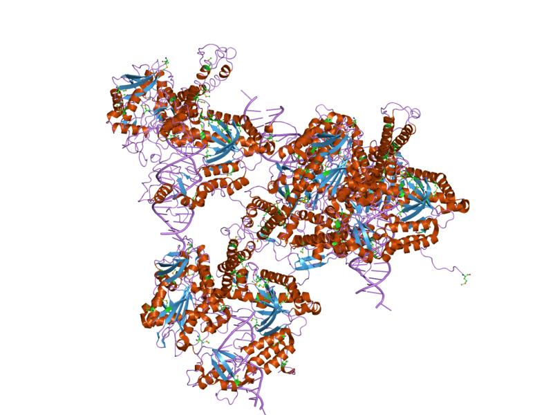 Cartoon representation of the molecular structure of protein registered with 2dy4 code.